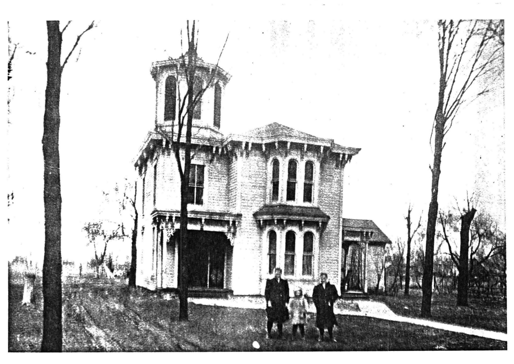 From the US Natural Park Service. The National Register of Historic Places